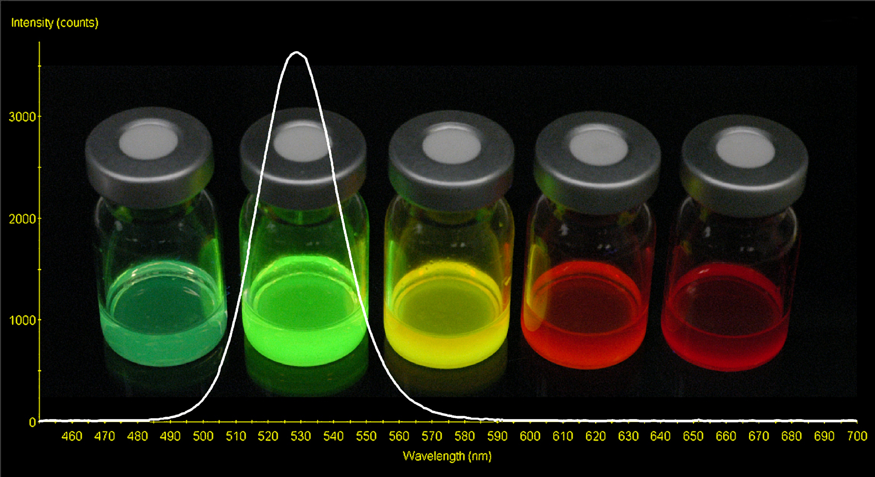 Cadmium selenium Quantum Dots (QDs) are metal nanoparticles that fluoresce in a variety of colors determined by their size. QDs are solid state structures made of semiconductors or metals that confine a countable, small number of electrons into a small space. The confinement of electrons is achieved by the placement of some insulating material(s) around a central, well conducted region. Coupling QDs with antibodies can be used to make spectrally multiplexed immunoassays that test for a number of microbial contaminants using a single test.